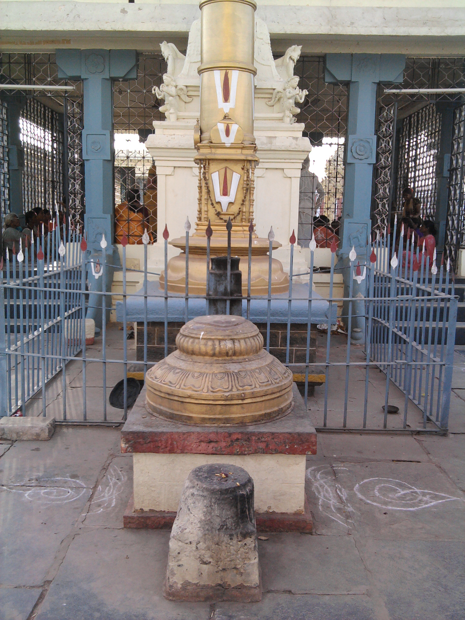 Sri Chennakesava Swami Temple, Vinjamur